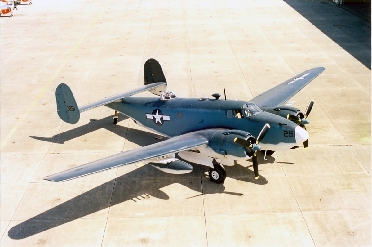 A U.S. Lockheed PV-2 Harpoon (BuNo 37230) at the U.S. National Museum of Naval Aviation. Official description: "The museum's example of the PV-2 Harpoon (Bureau Number 37230) was accepted by the Navy at Naval Auxiliary Air Station (NAAS) Holtsville, California, in December 1945. It remained at the station until the following February, at which time it was sent to Naval Air Facility (NAF) Litchfield Park, Arizona, a base used primarily for the long term storage of aircraft. However, this was not destined to be the fate of Bureau Number 37230, which spent only a week there before being flown to Naval Air Station (NAS) Olathe, Kansas, where it commenced service with the Naval Air Reserve. The airplane flew in support of the training of reservists at NAS Olathe, NAS Moffett Field, California, and NAS Minneapolis, Minnesota, until 1951, at which time it entered overhaul and repair. Converted to the PV-2T configuration, Bureau Number 37230 joined Marine Night Fighter Training Squadron (VMFT(N))-20 at Marine Corps Air Station (MCAS) Cherry Point, North Carolina, in 1952 and flew with that squadron for the ensuing three years. Stricken from the Navy aircraft inventory following this assignment, the airplane entered the private sector and over the course of the ensuing decades it passed through several owners, the first appearance on civil aviation rolls in Houston, Texas, in 1957. Subsequently, Bureau Number 37230 flew as an aerial fire fighter and agricultural sprayer for owners in Oregon, Texas, Oklahoma, and Nebraska, before its purchase by Hirth Air Tankers of Buffalo, Wyoming, in 1989. With the latter company the airplane supporting the effort to fight forest fires in the western states until flight delivered to the National Naval Aviation Museum in 2000. It is currently on outdoor static display painted in a wartime Marine Corps scheme."